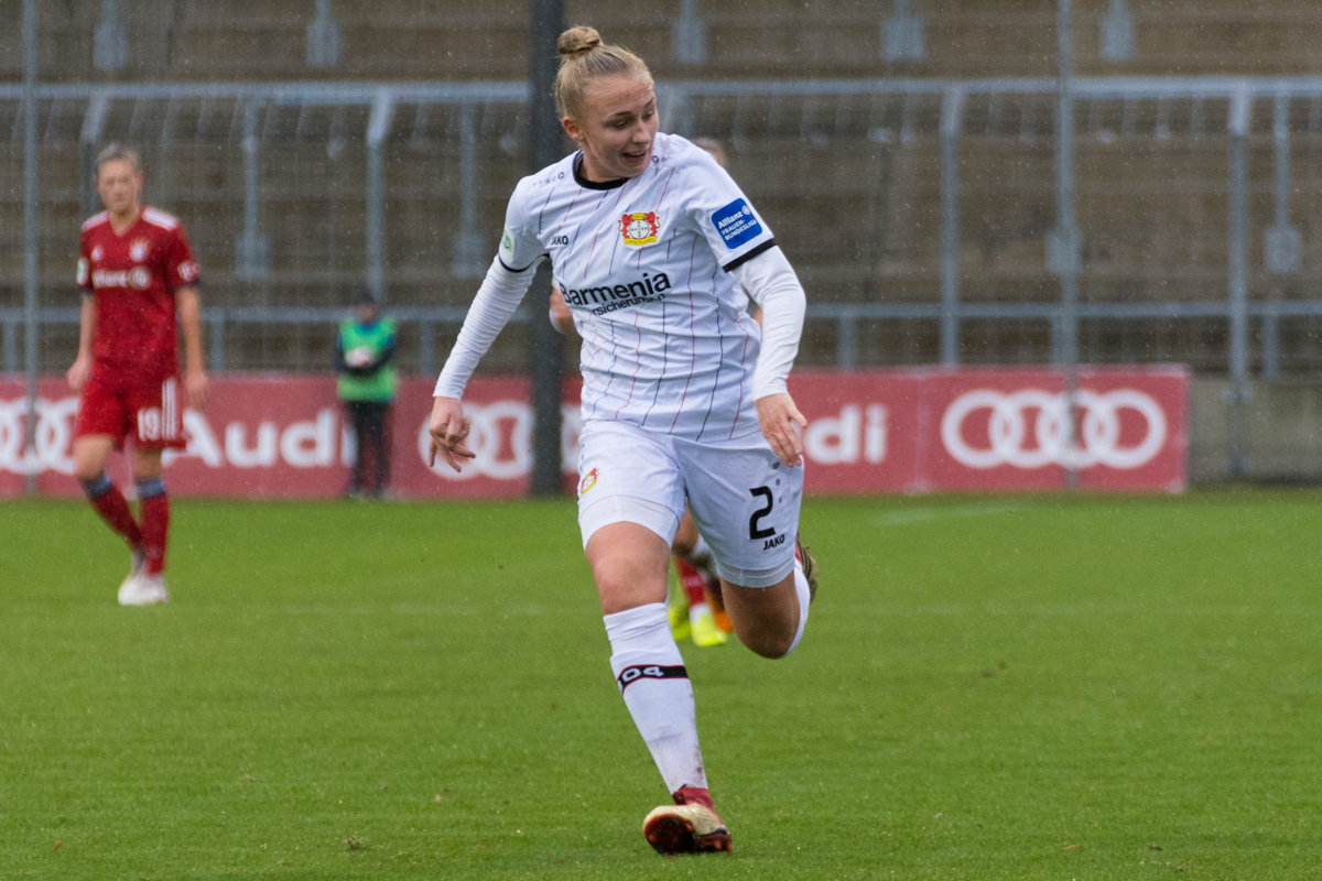 Frederike Kempe during the Bundesliga match vs FC Bayern